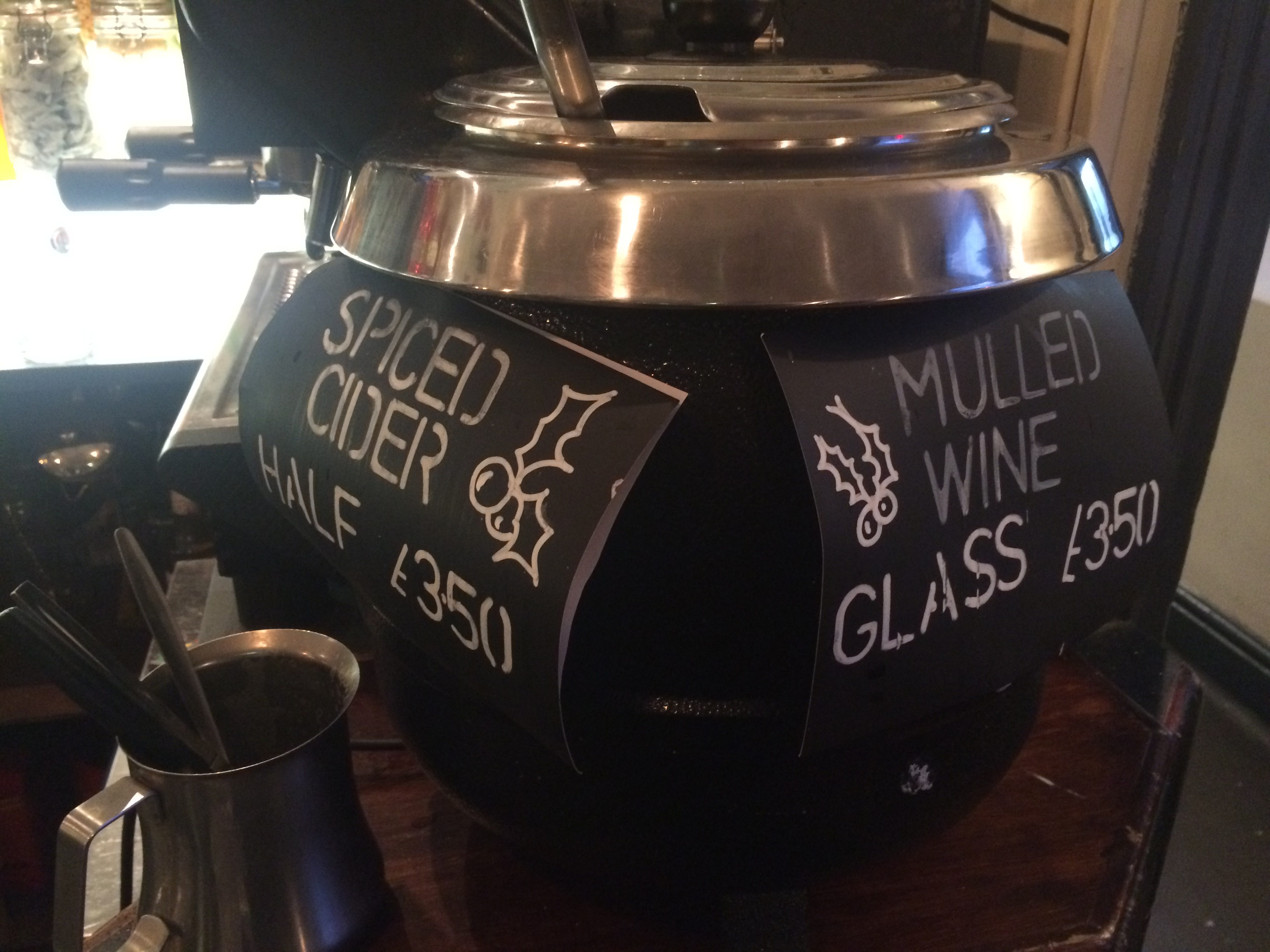 A British Pub in Manchester selling Mulled Wine and Mulled Cider at Christmas.